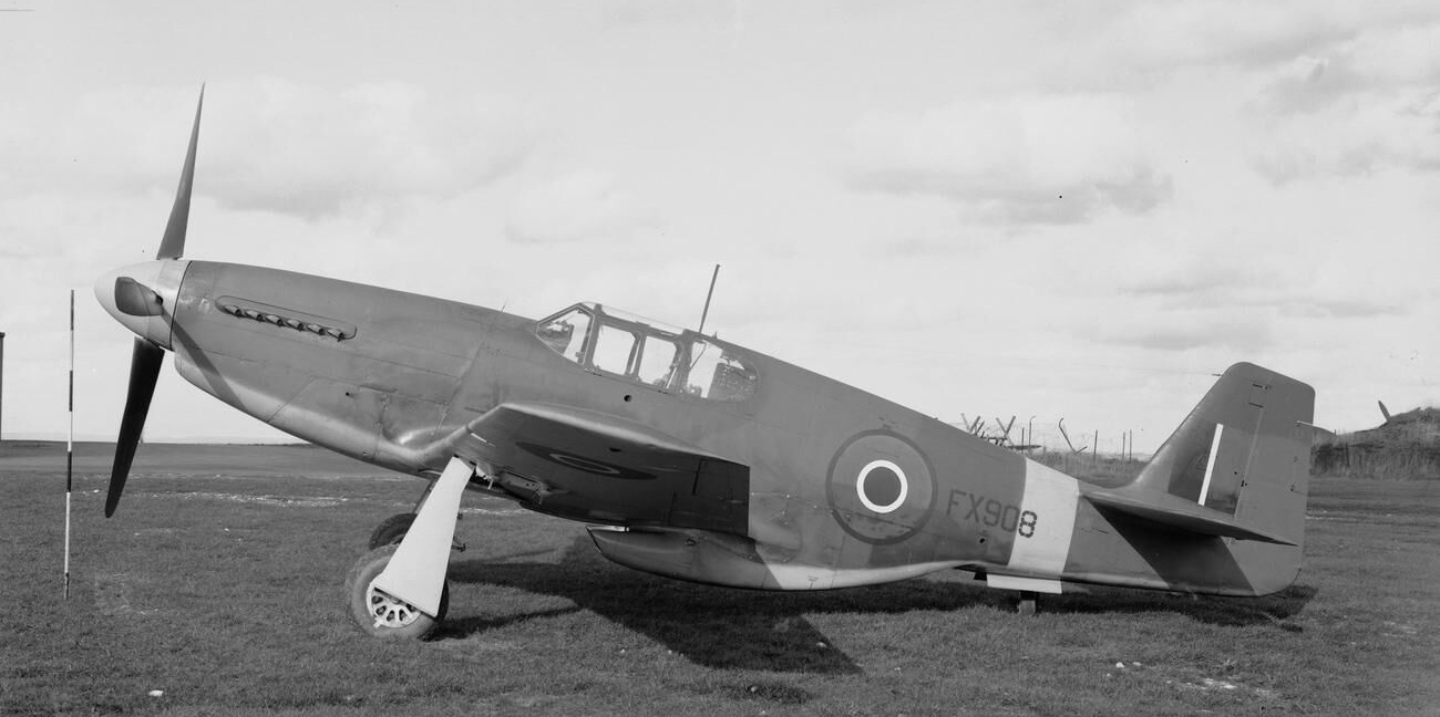 A Royal Air Force North American Mustang Mark III (FX908) on the ground at Hucknall, Nottinghamshire (UK), following the installation of its 1,680-hp Packard Merlin engine by Rolls-Royce Ltd. This aircraft served with Nos. 309 and 316 Polish Fighter Squadrons.